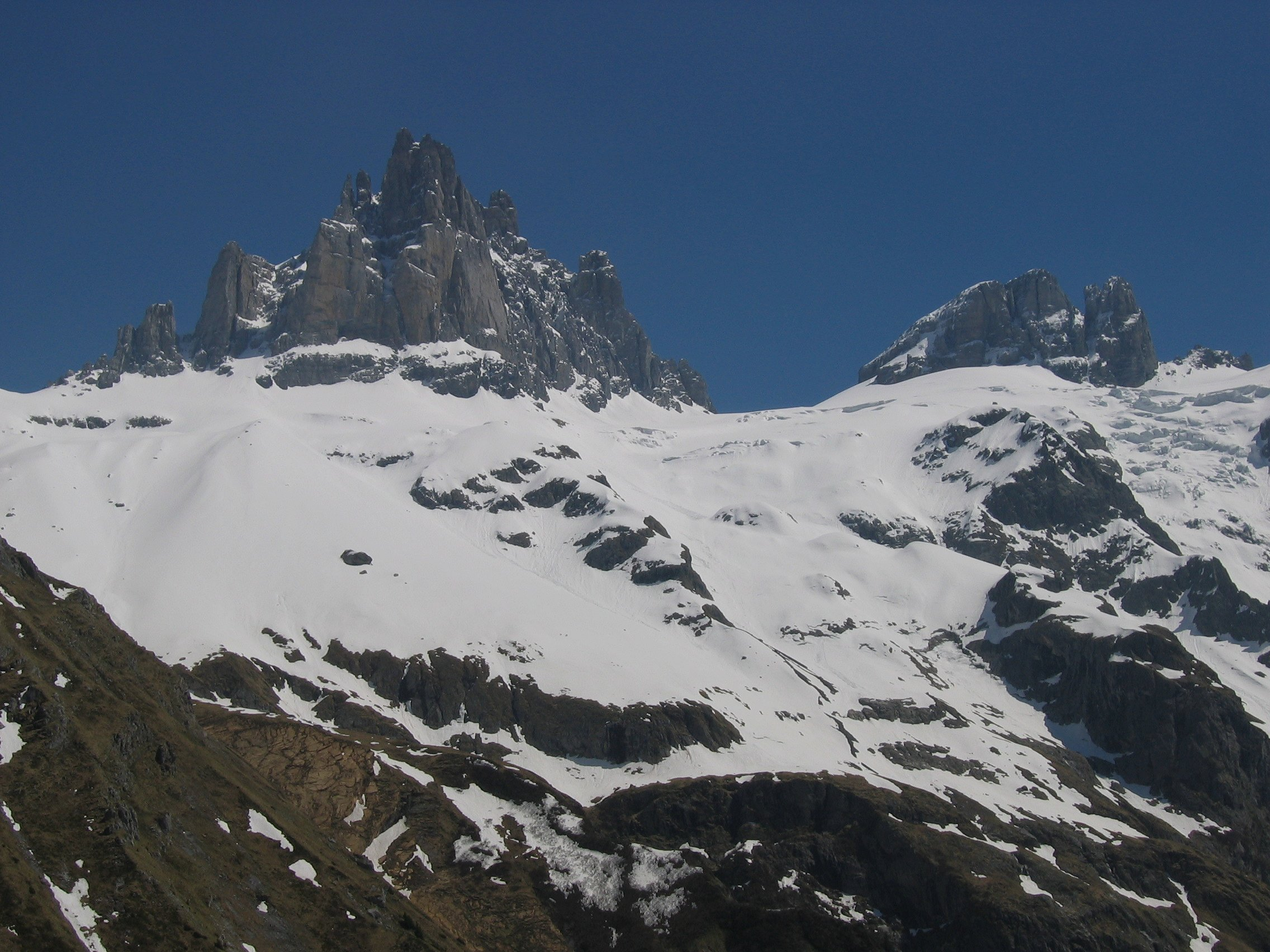 Gross Spannort, 3198m, and Chli Spannort, 3140m